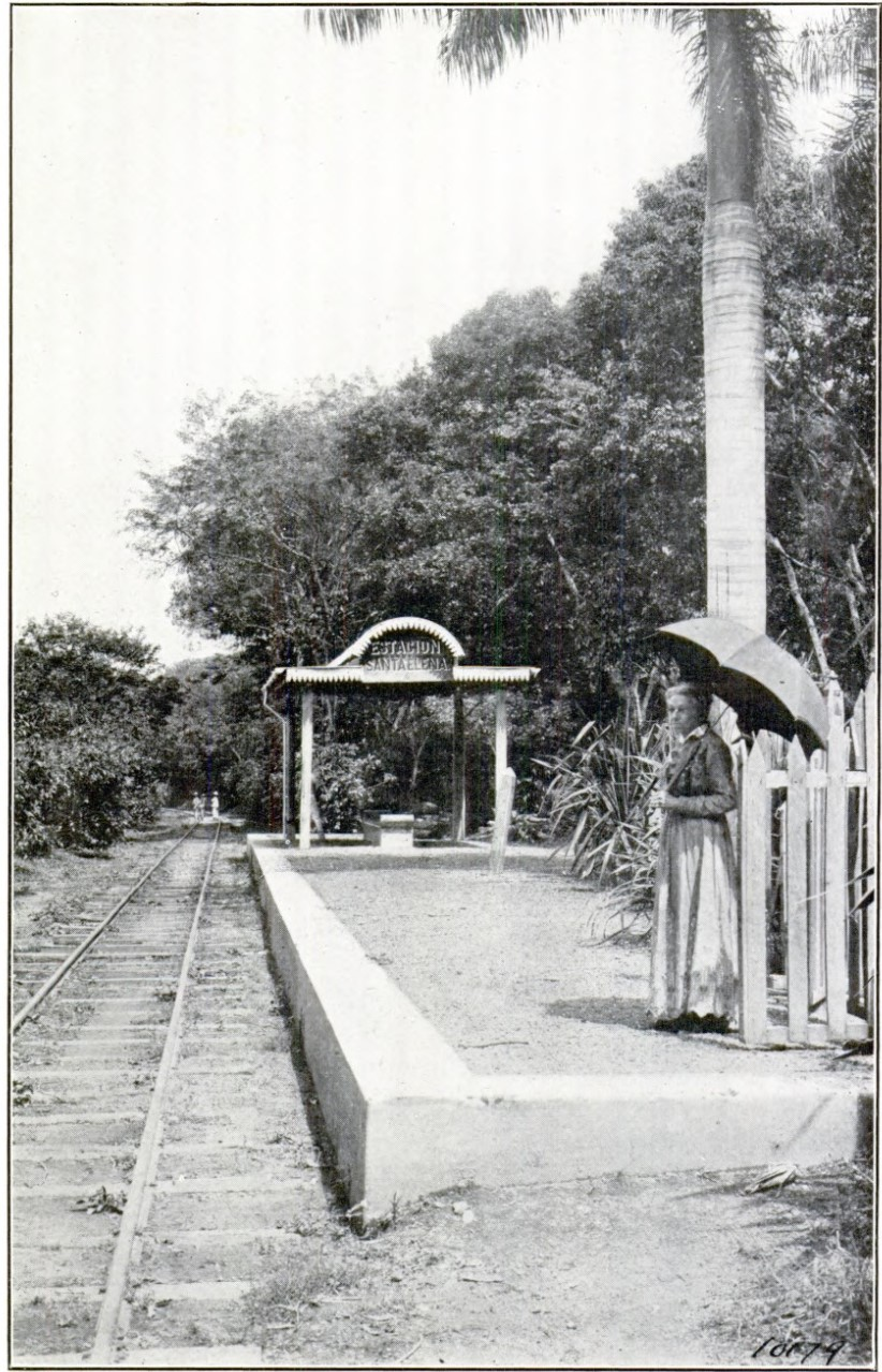 Station on Santa Tecla Railroad, Salvador